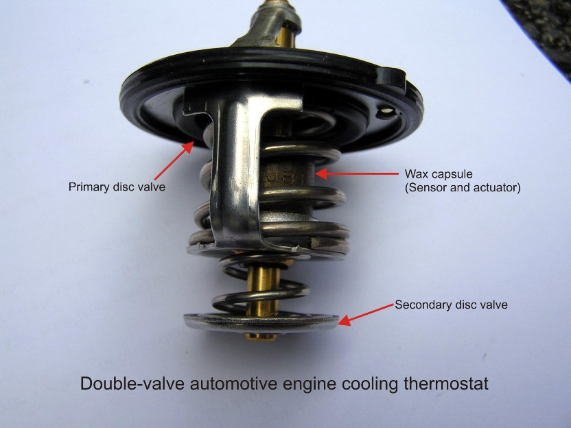 View of automotive thermostat with double valve arrangement